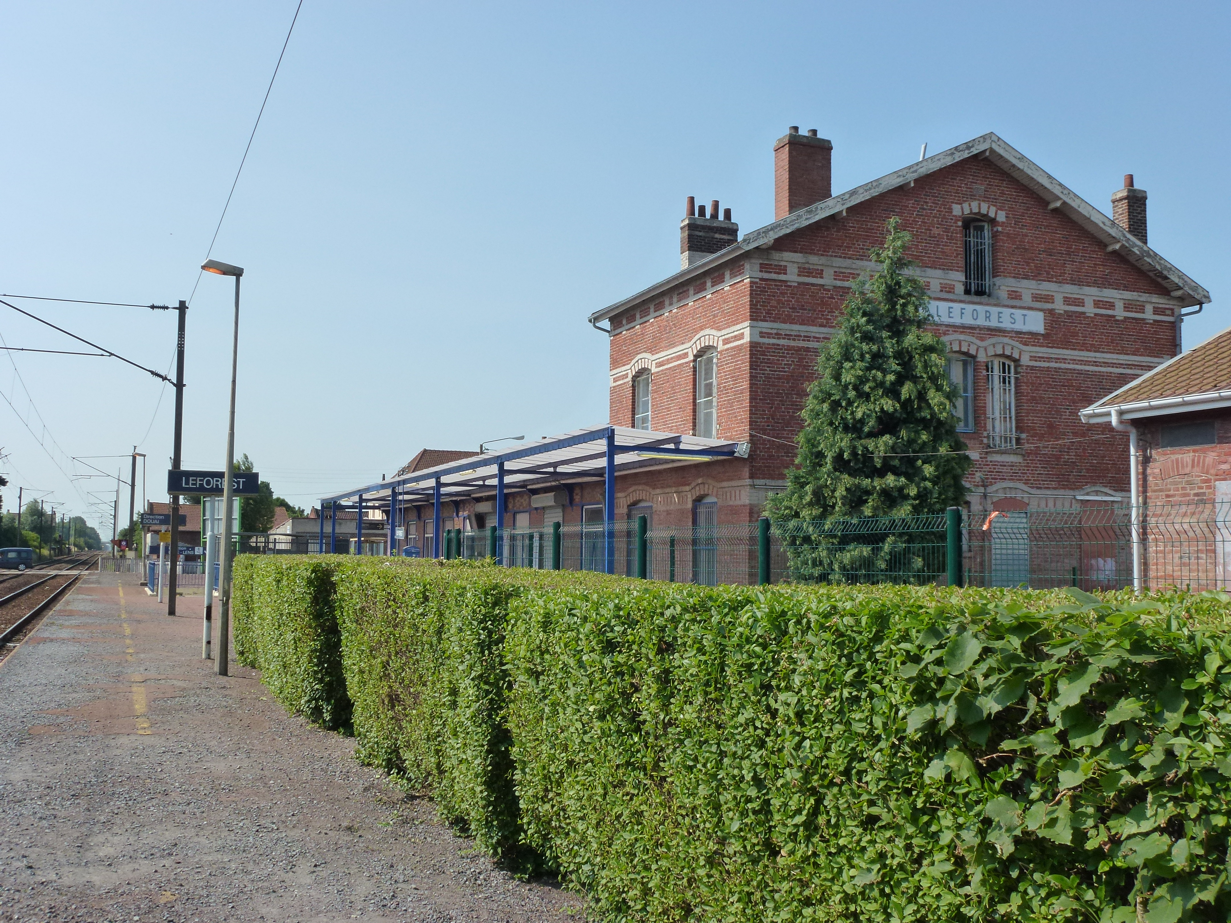 Leforest (Pas-de-Calais, Fr) gare